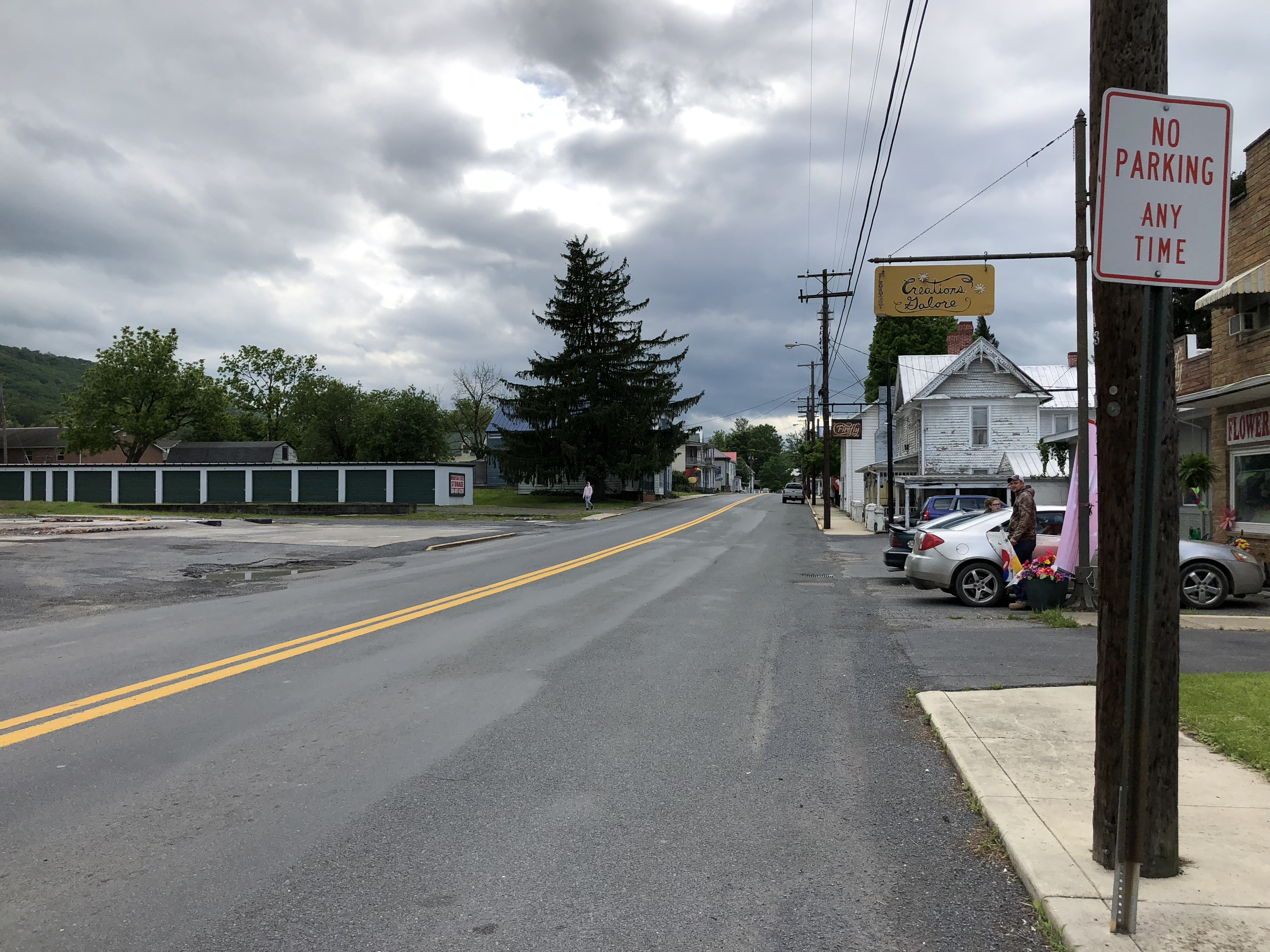 View west along U.S. Route 48 and West Virginia State Route 55 and south along West Virginia State Route 259 (Main Street) between Carpenters Avenue and Rosebud Lane in Wardensville, Hardy County, West Virginia